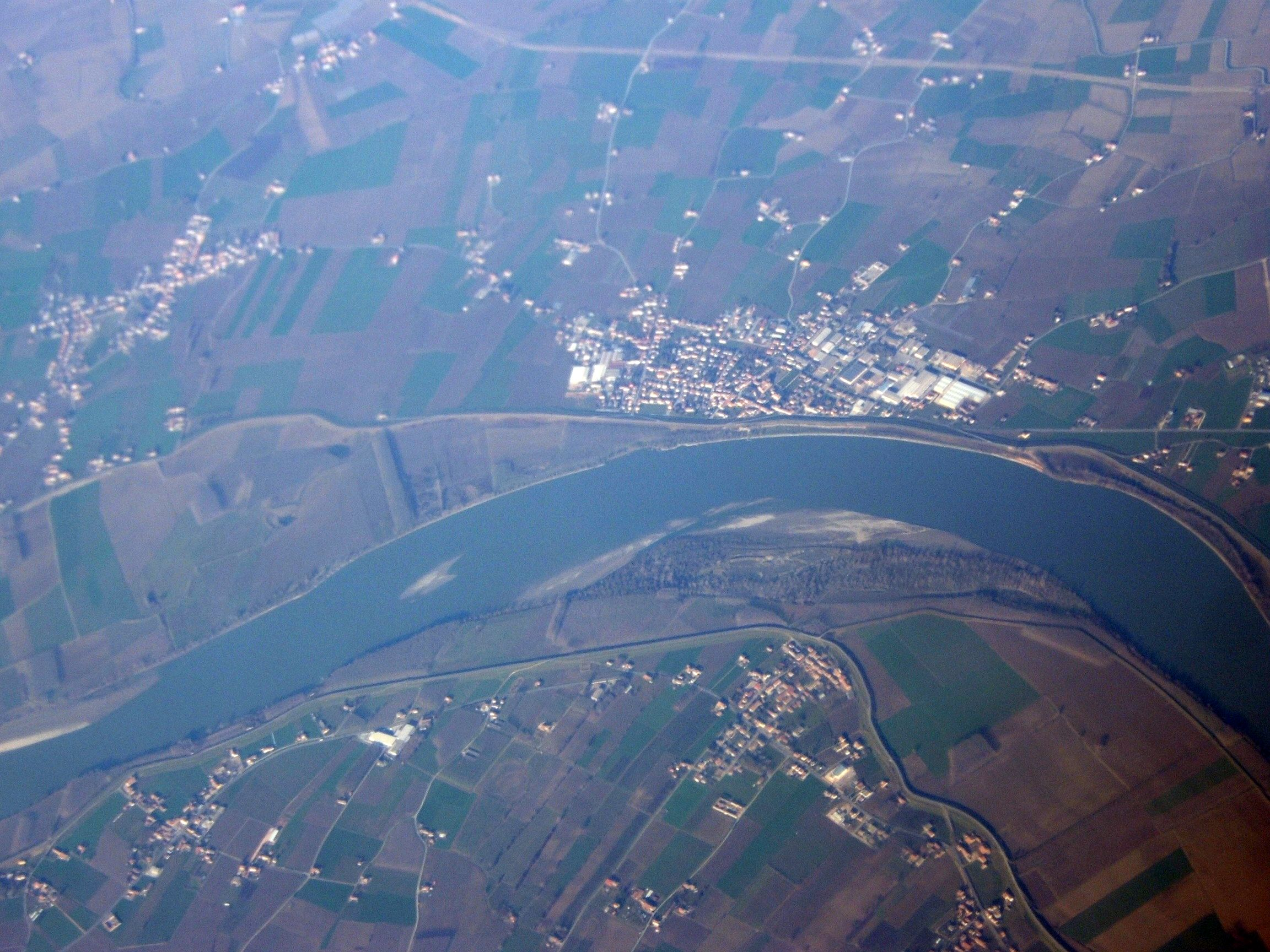 Aerial view of Melara, Italy (with Po river), south of the river is the village Borgofranco sul Po, west of Melara is Correggioli